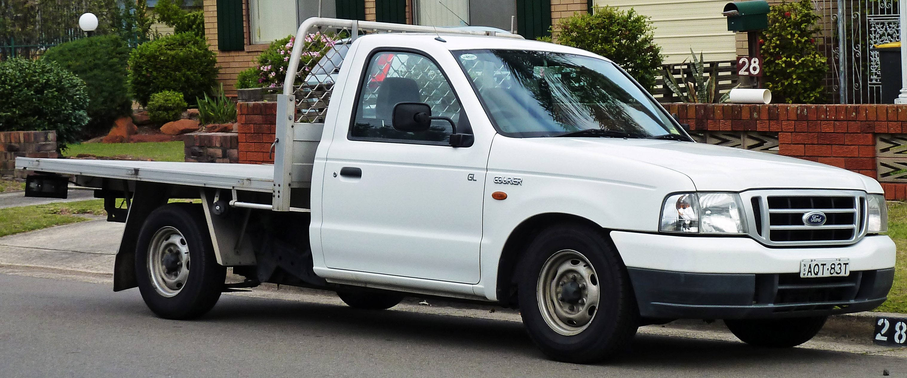 2002–2004 Ford Courier (PG) GL 2-door cab chassis. Photographed in Sans Souci, New South Wales, Australia.